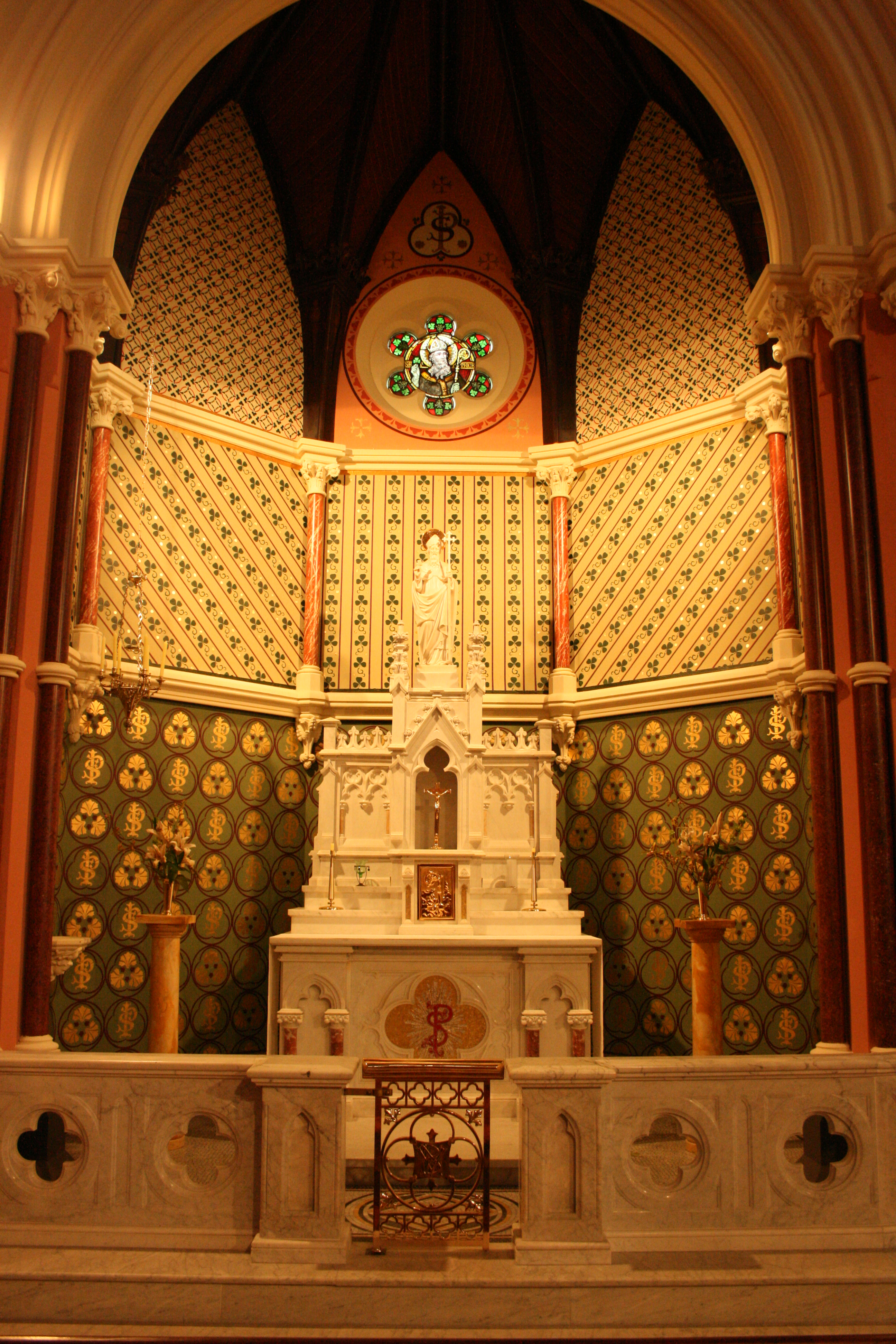 Chapel of the Irish Saints